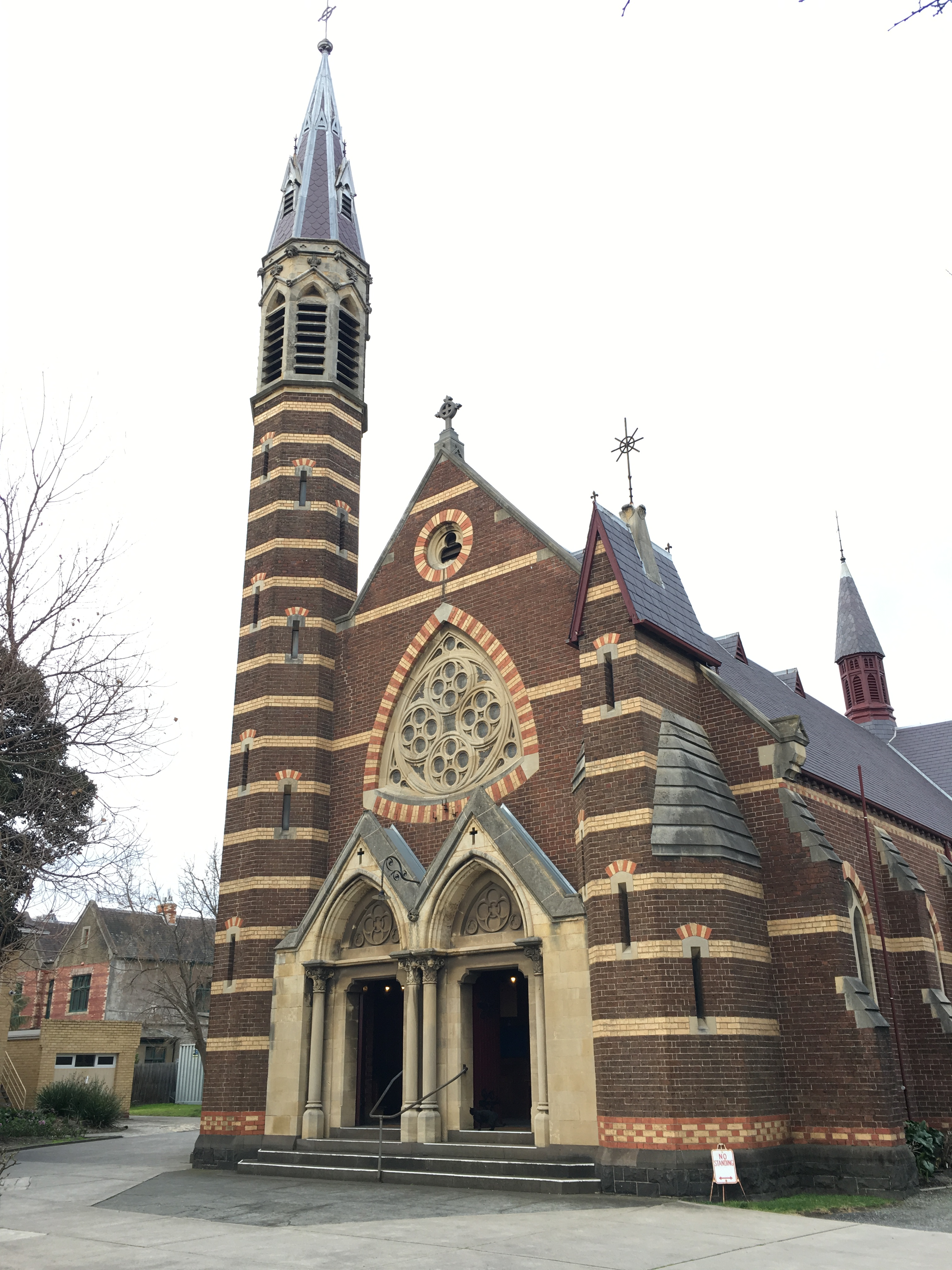 St Georges, East St Kilda, 1877-80, Albert Purchas